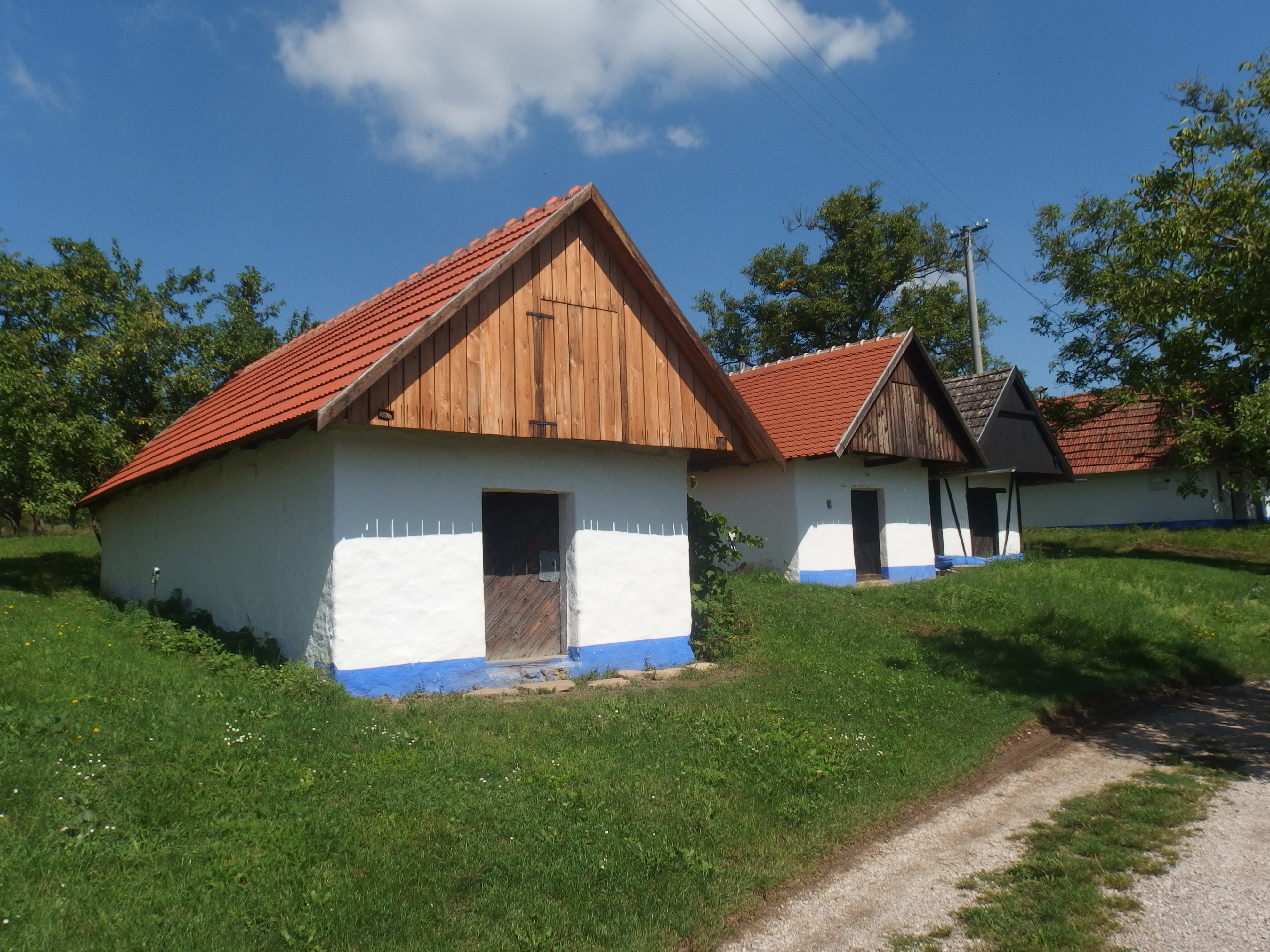 Vlčnov in Uherské Hradiště District, Czech Republic. Vlčnovské búdy (Winecellars of Vlčnov), village monument reserve.